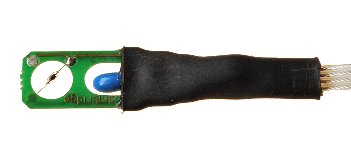 The head of a combined air velocity and air temperature sensor, type CAFS-220. The air velocity is measured by means of a hot wire (in the circular hole). Dimensions of the visible part of the green PCB: width 5.5 mm, length 9.5 mm. The sensor has a 5 meter long cable (not visible in the picture) for a connection to the Airflow Temperature Monitor, type Cambridge AccuSense ATM-24. Due to the small dimensions and to the flexible cable connection, the sensor is suitable for example for air flow measurements inside closed electronics housings. Measuring ranges: air velocity 0.15 m/s to 15 m/s, temperature 0 °C to 100 °C.